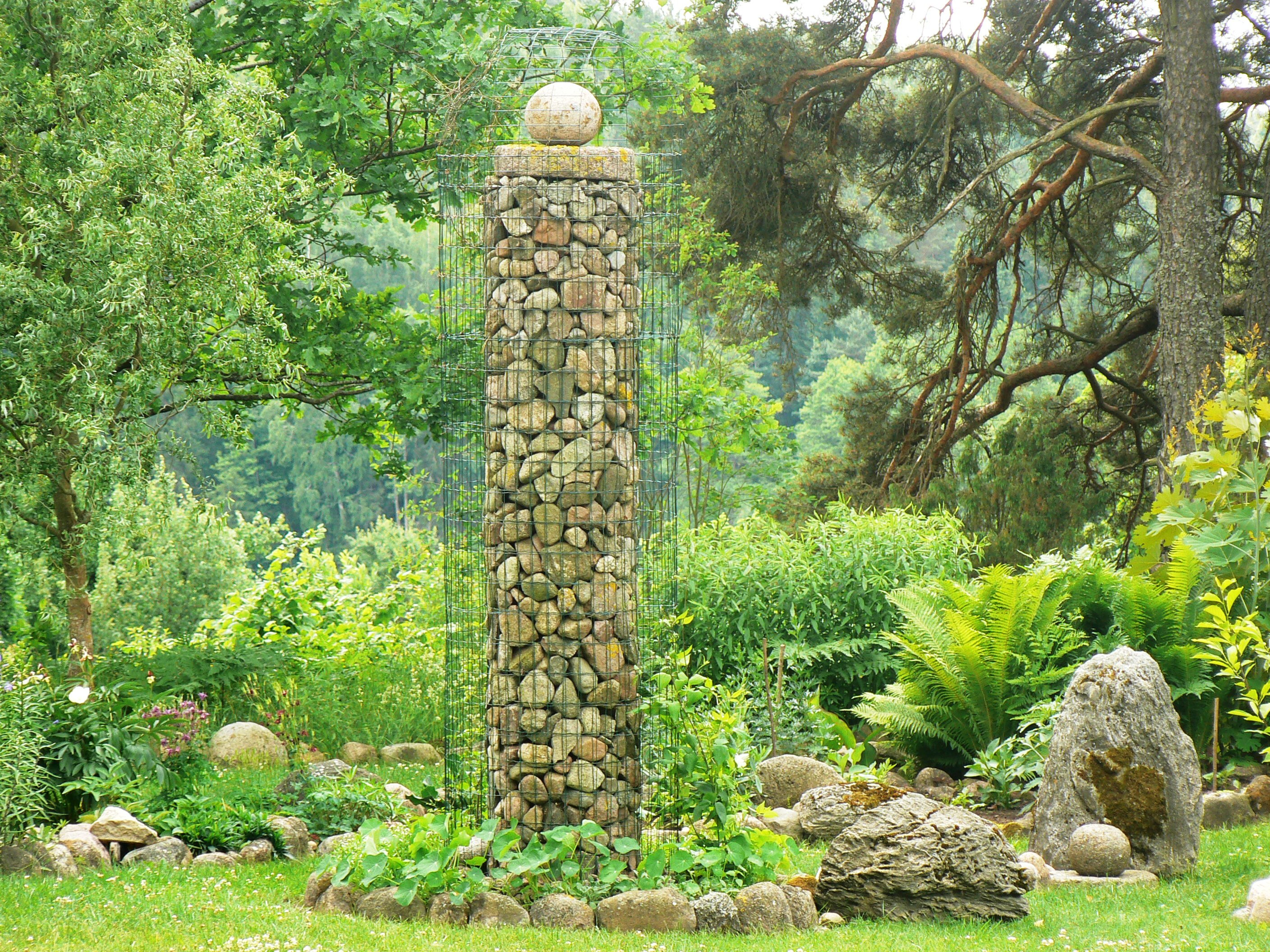 Gabions. Small Architectural Forms. Molėtai Observatory. Lithuania